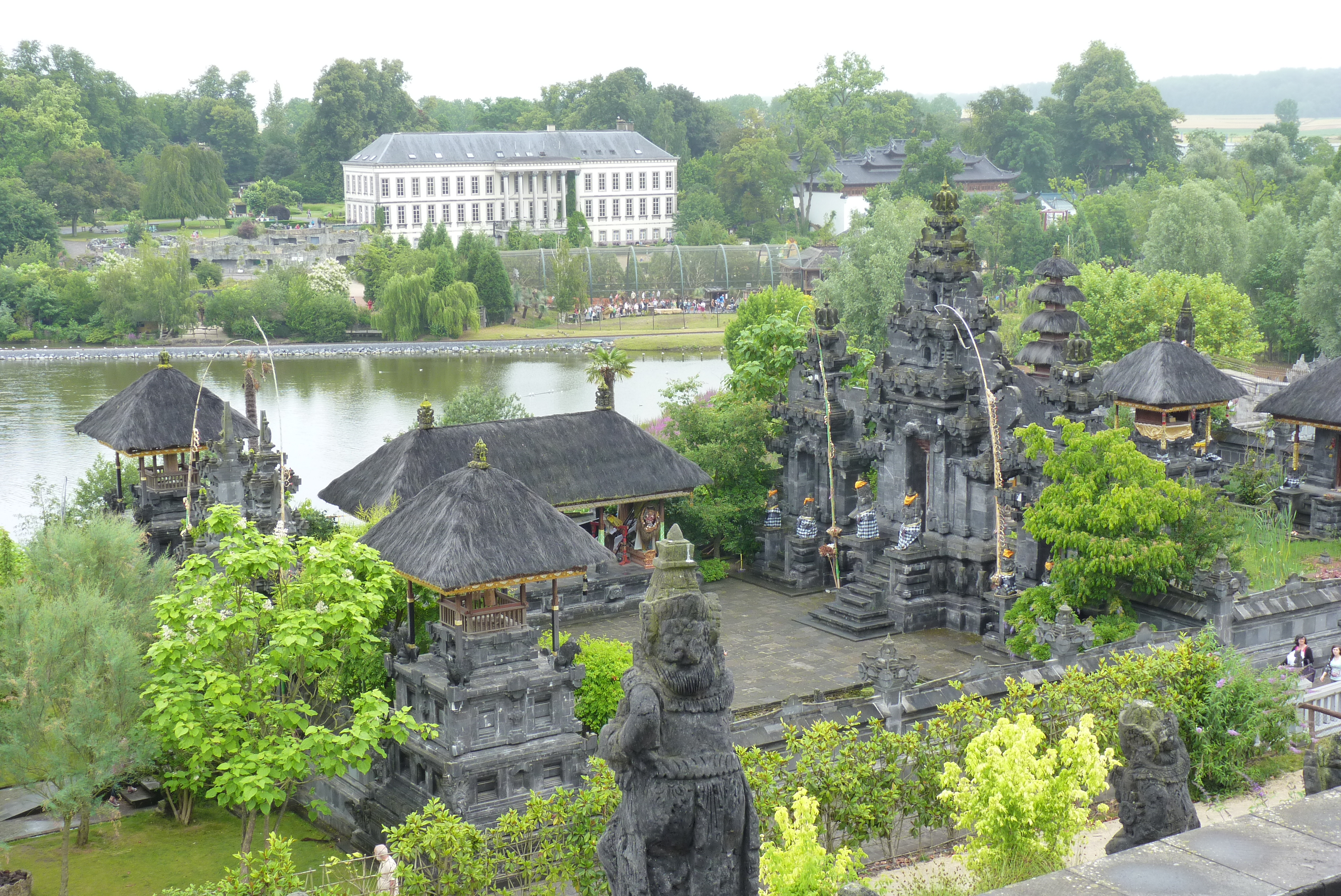 Pairi Daiza in Belgium, panorama